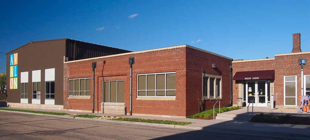 Avalon School, 700 Glendale St, St Paul, Minnesota, USA. Viewed from the southwest.